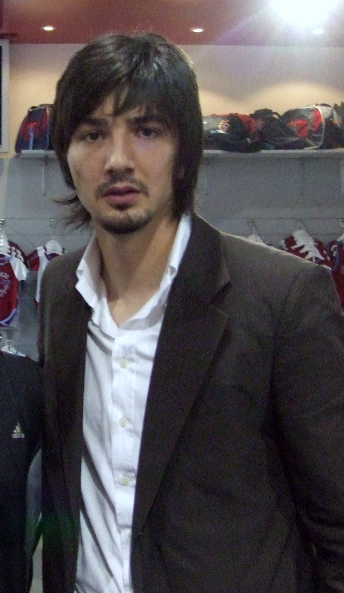 Turkish goalkeeper